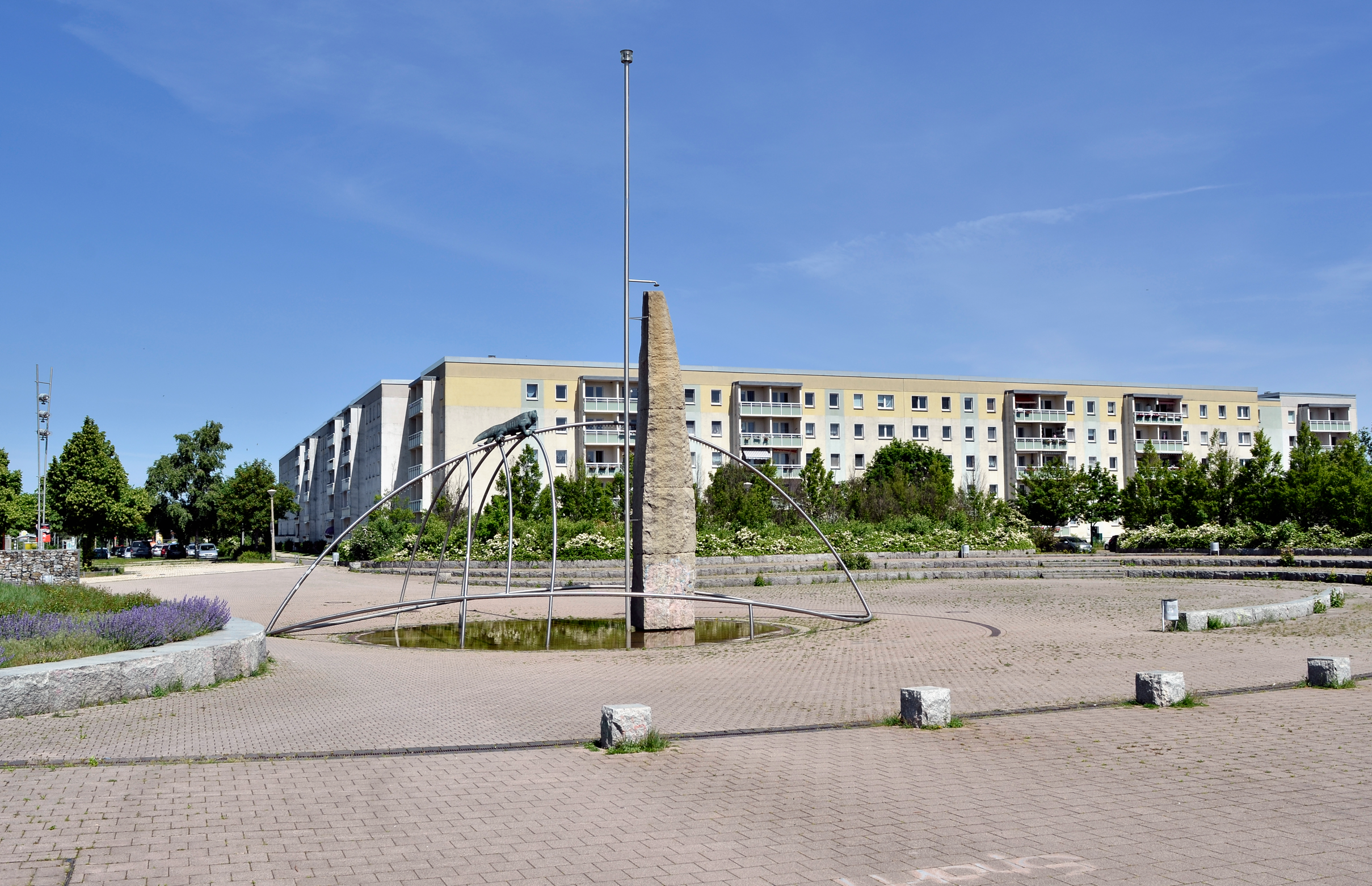 The fountain on the Ernst-Mucke-Platz.